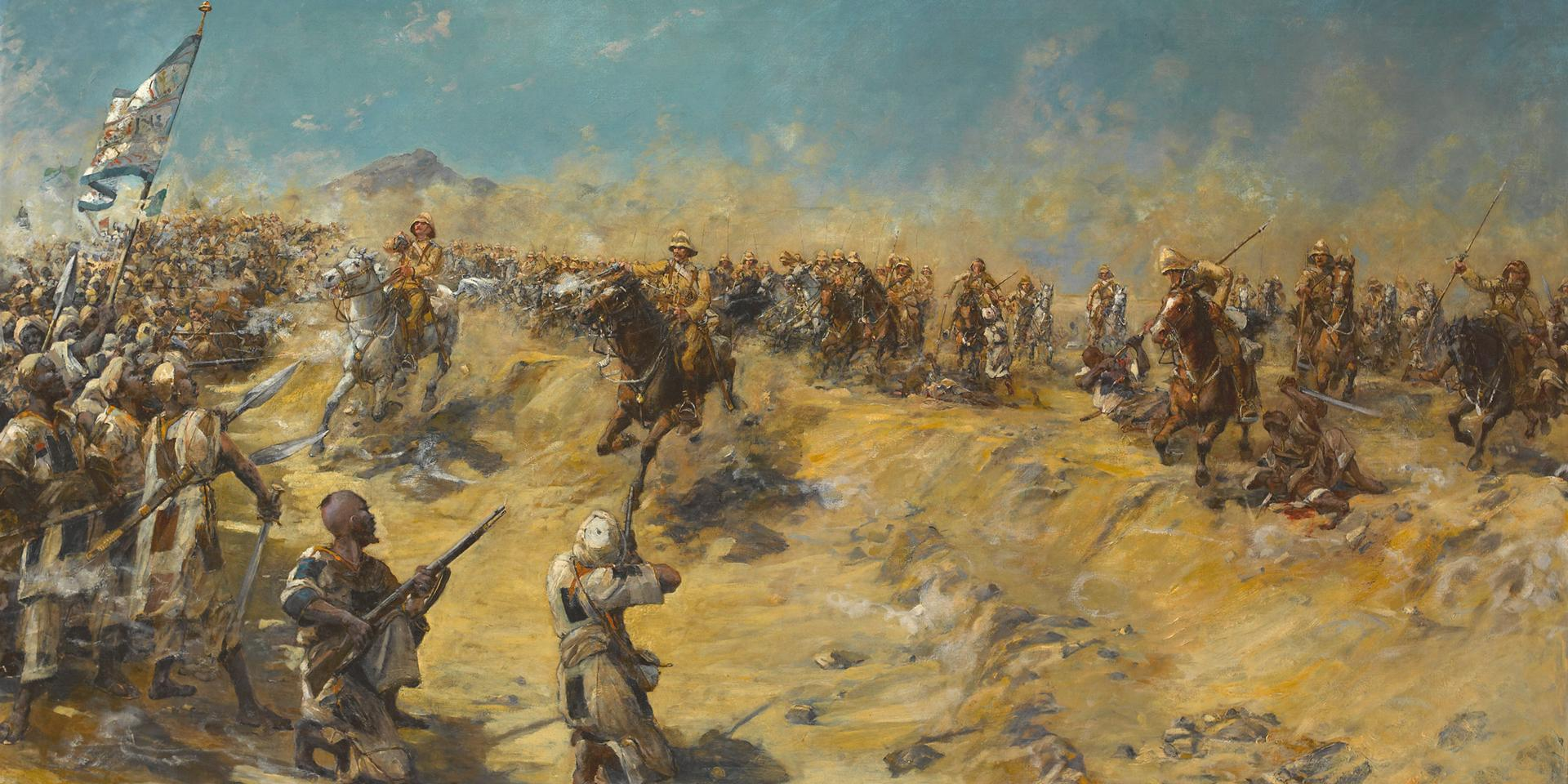 The charge of the 21st Lancers at Omdurman. Source: Uploaded form the German Wikipedia :de:Bild:21lancers.JPG